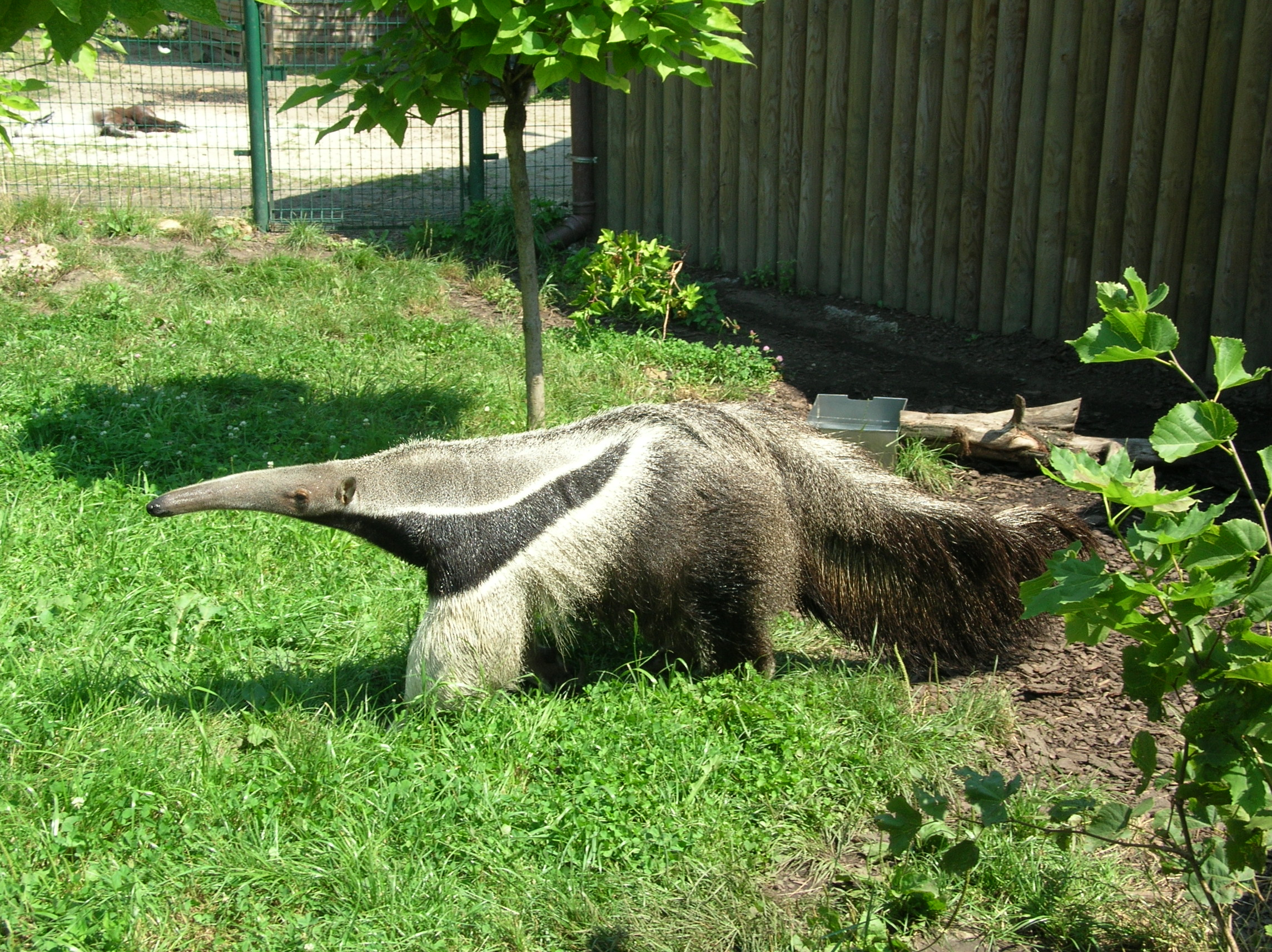 Giant anteater (Myrmecophaga tridactyla), Opole Zoo, Poland